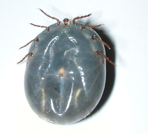 Haemphysalis longicornis. Engorged female. Ventral view.